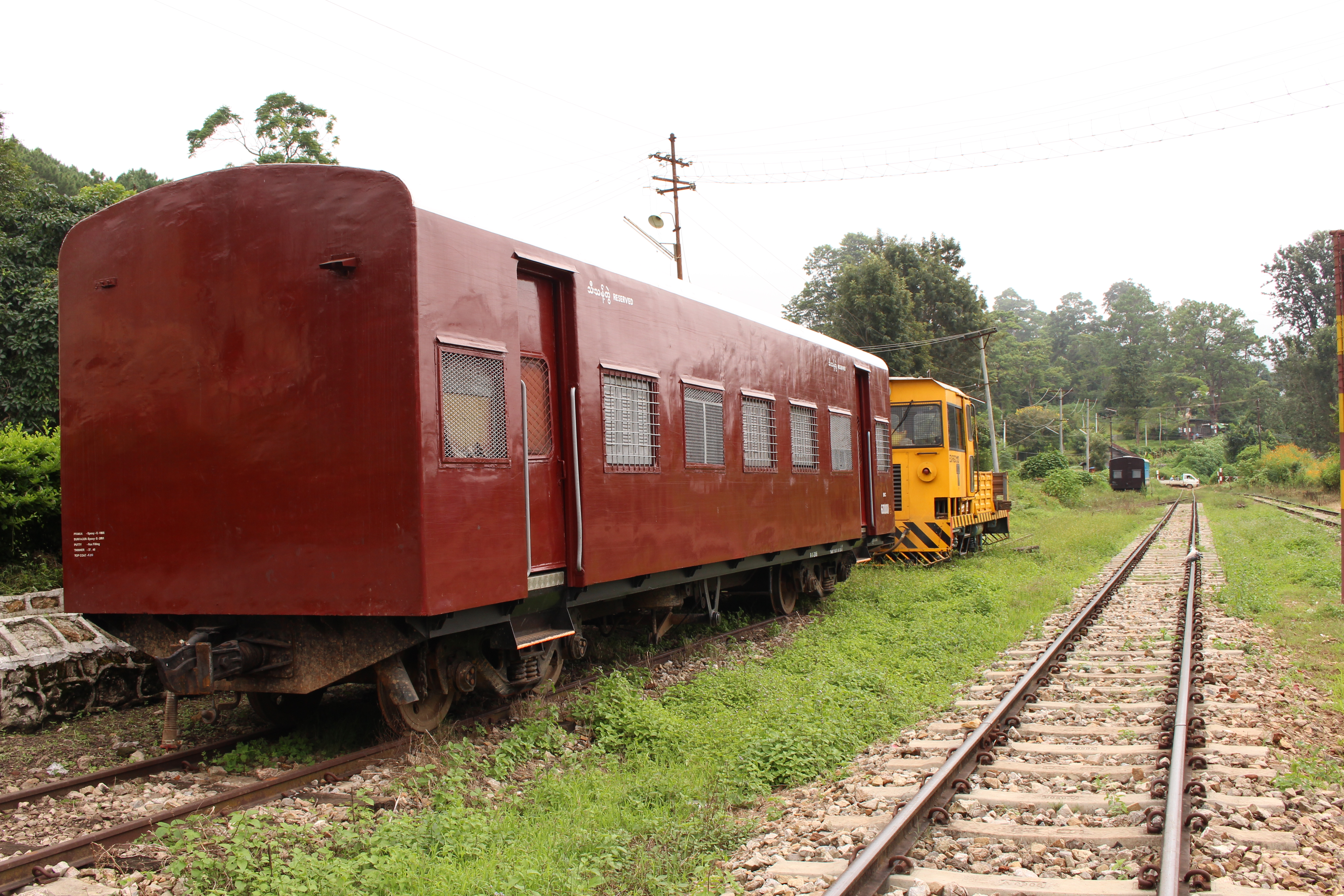 A cabin at Kalaw Railway Station မြန်မာဘာသာ: ကလောဘူတာရှိ ရထားတွဲတစ်တွဲ